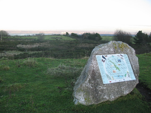 Halkyn Mountain Common. A view looking east from Halkyn Mountain Common to the Dee Estuary and the Wirral.